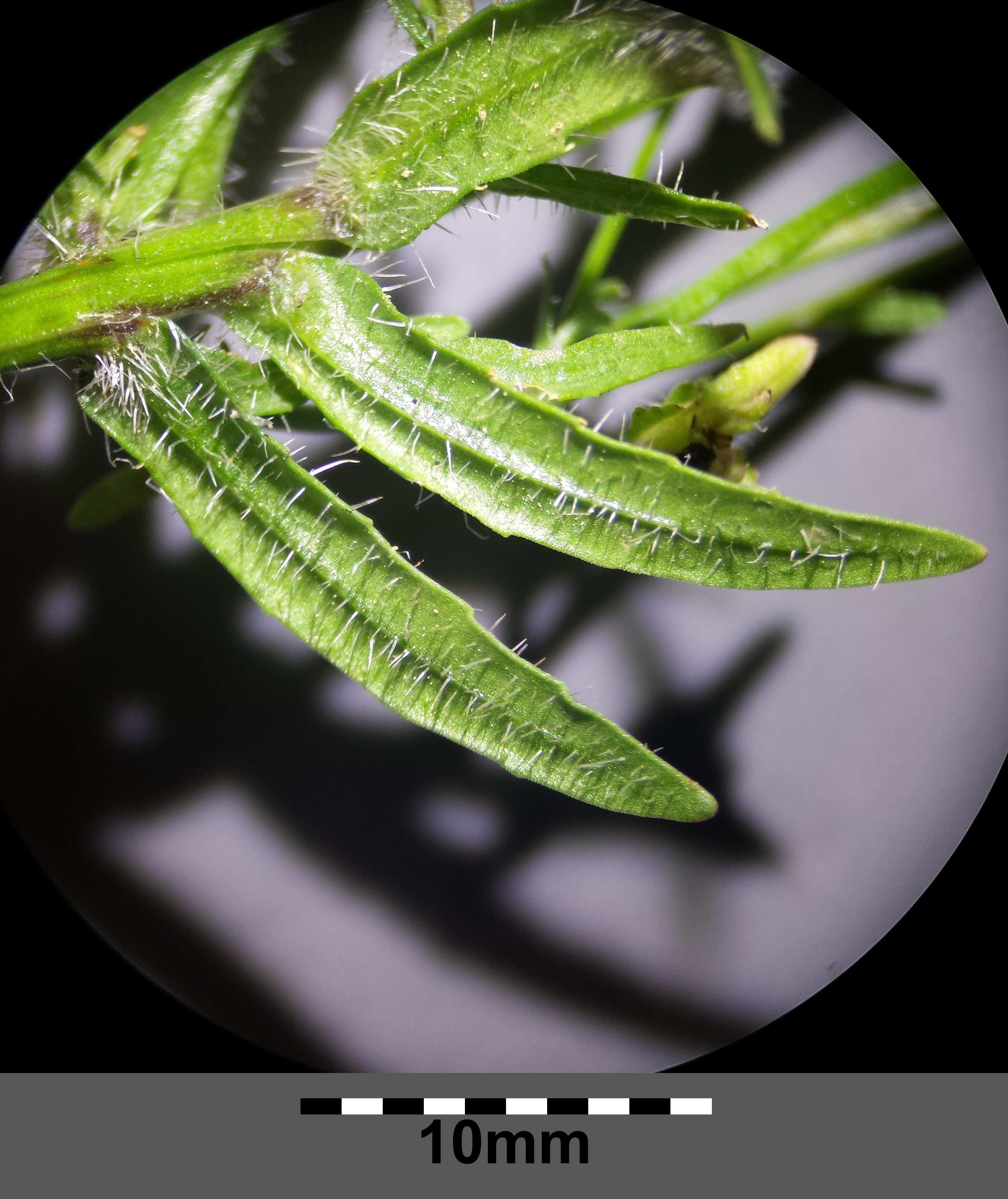 Stem with leaves Taxonym: Jasione montana ss Fischer et al. EfÖLS 2008 ISBN 978-3-85474-187-9 Location: next to Griesbach, Groß-Gerungs, district Zwettl, Lower Austria - ca. 800 m a.s.l. Habitat: wayside/slope